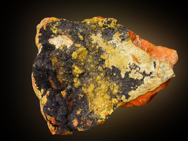 Soddyite, Curite, Heterogenite Locality: Shinkolobwe Mine (Kasolo Mine), Shinkolobwe, Central area, Katanga Copper Crescent, Katanga (Shaba), Democratic Republic of Congo (Zaïre) (Locality at ) Size: 8.5 x 7 x 6 cm. Here is a very fine specimen of Soddyite crystals associated with Curite crystals. Both of the minerals are covered with a thin layer of Heterogenite which gives a black color to a part of the specimen. This is typical for Shinkolobwe. The matrix is massive Curite. Shinkolobwe is the type locality for both Soddyite and Curite.